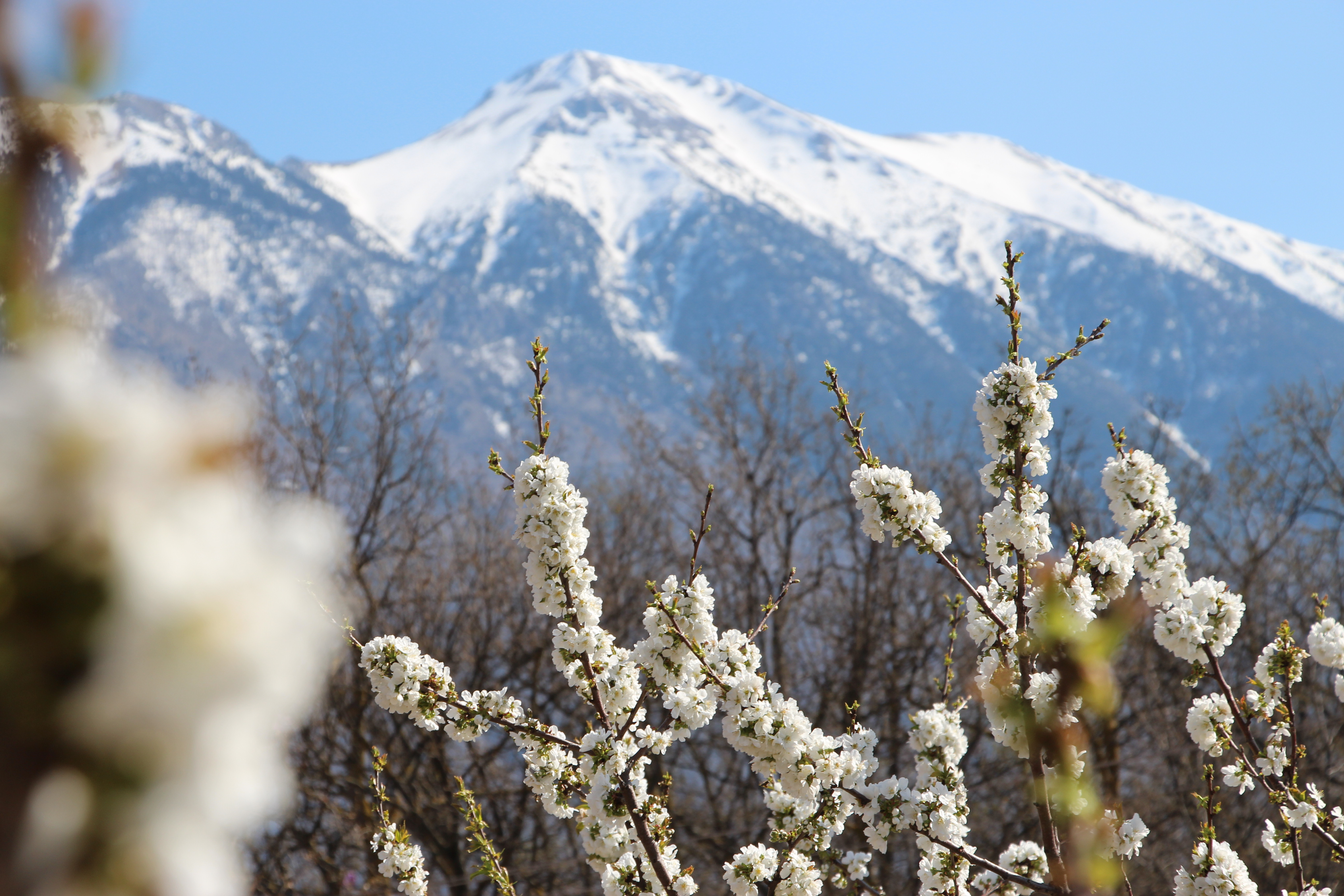 The warmth of city, the coldness of mountain